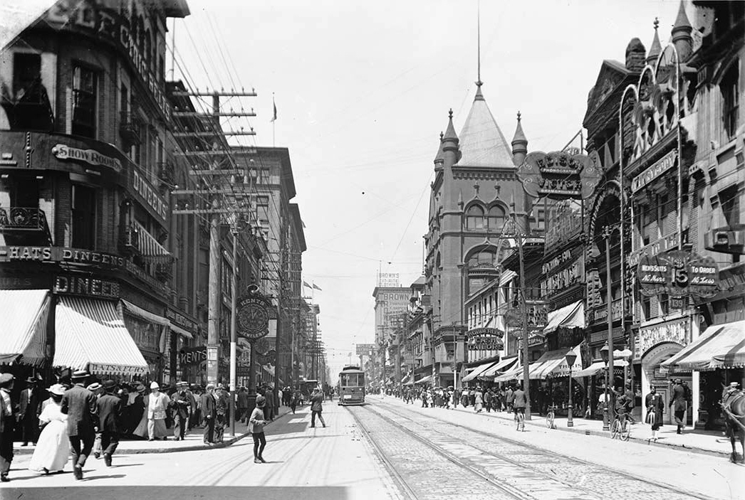 Yonge Street looking north, at Temperance Street. Toronto, Canada.